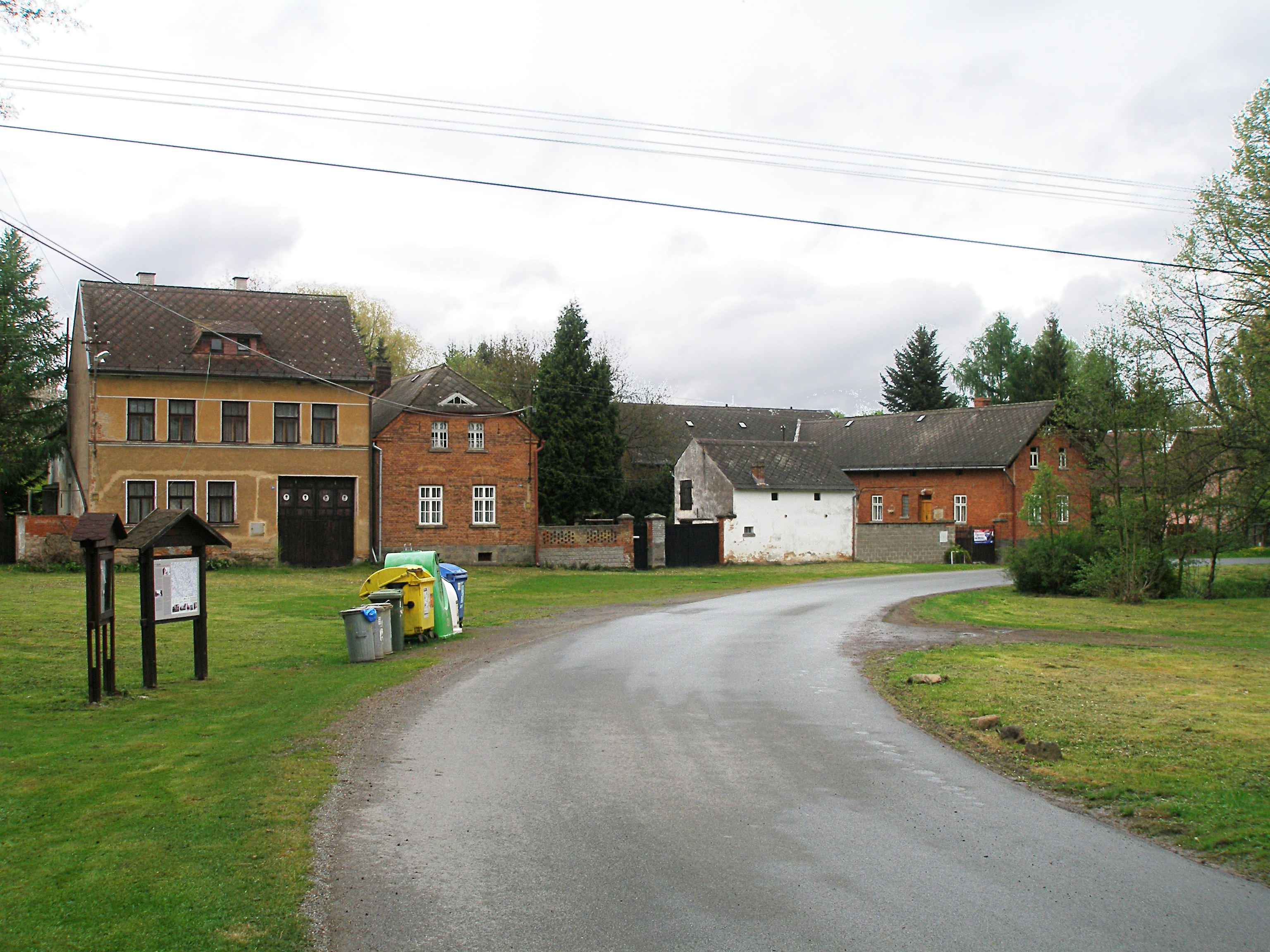 Zádub - the northern side of the square